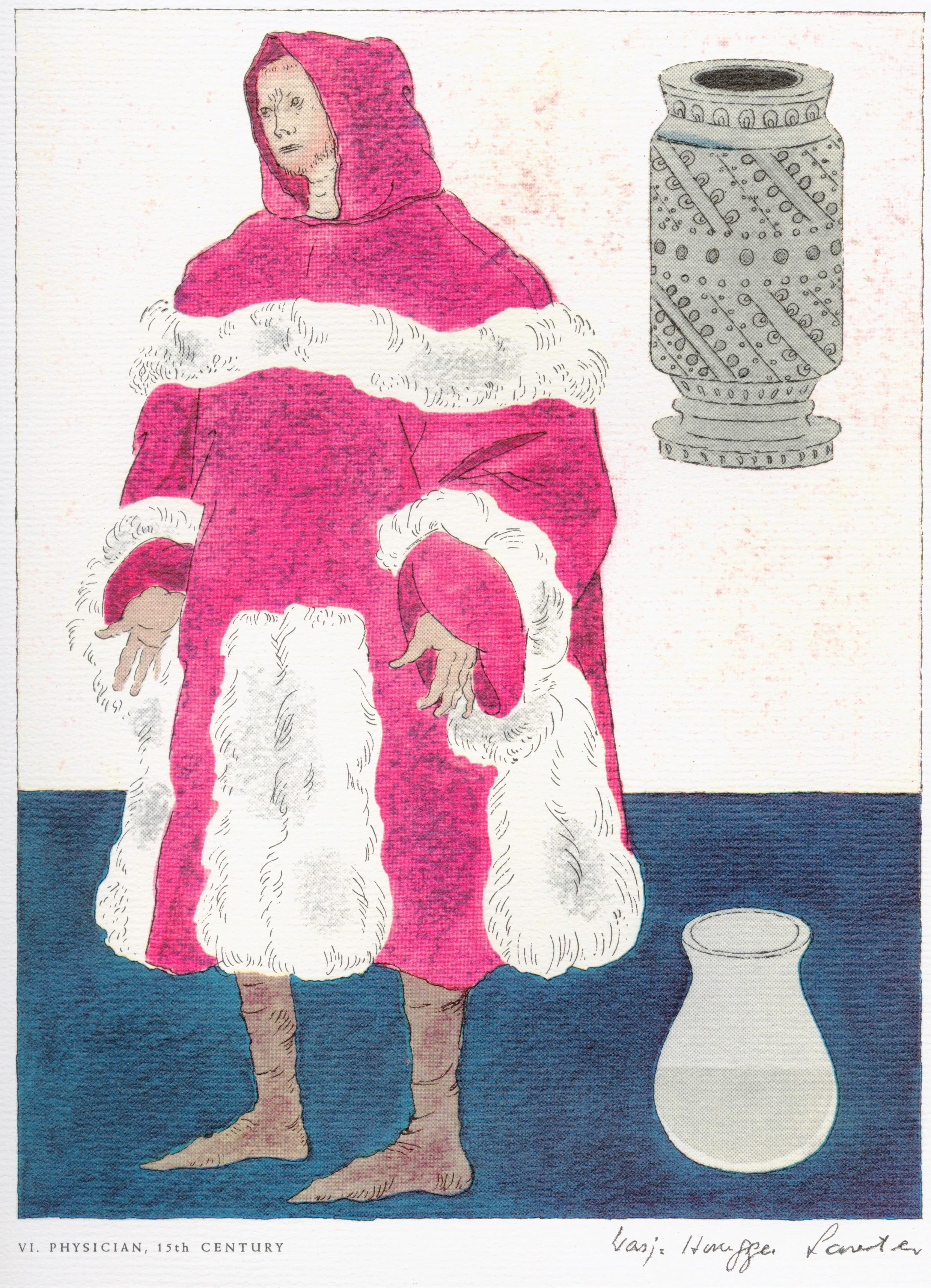 Physician, 15th Century - Plate VI of XII "... portrayed by the Swiss illustrator, Warja Honegger-Lavater, from authentic costume reproductions in the University of Rome's Institute of Medical History."